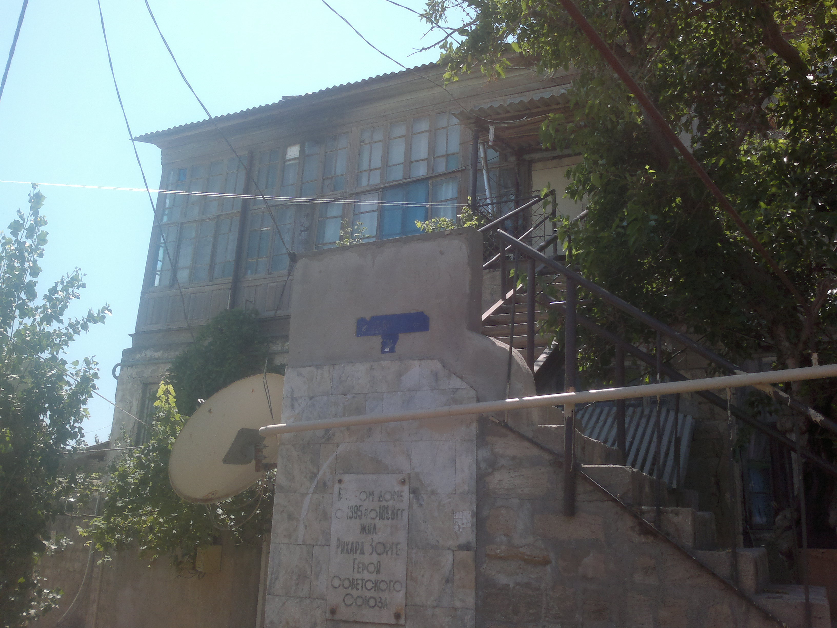 House in Sabunchu where from 1895 till 1898 Richard Sorge lived